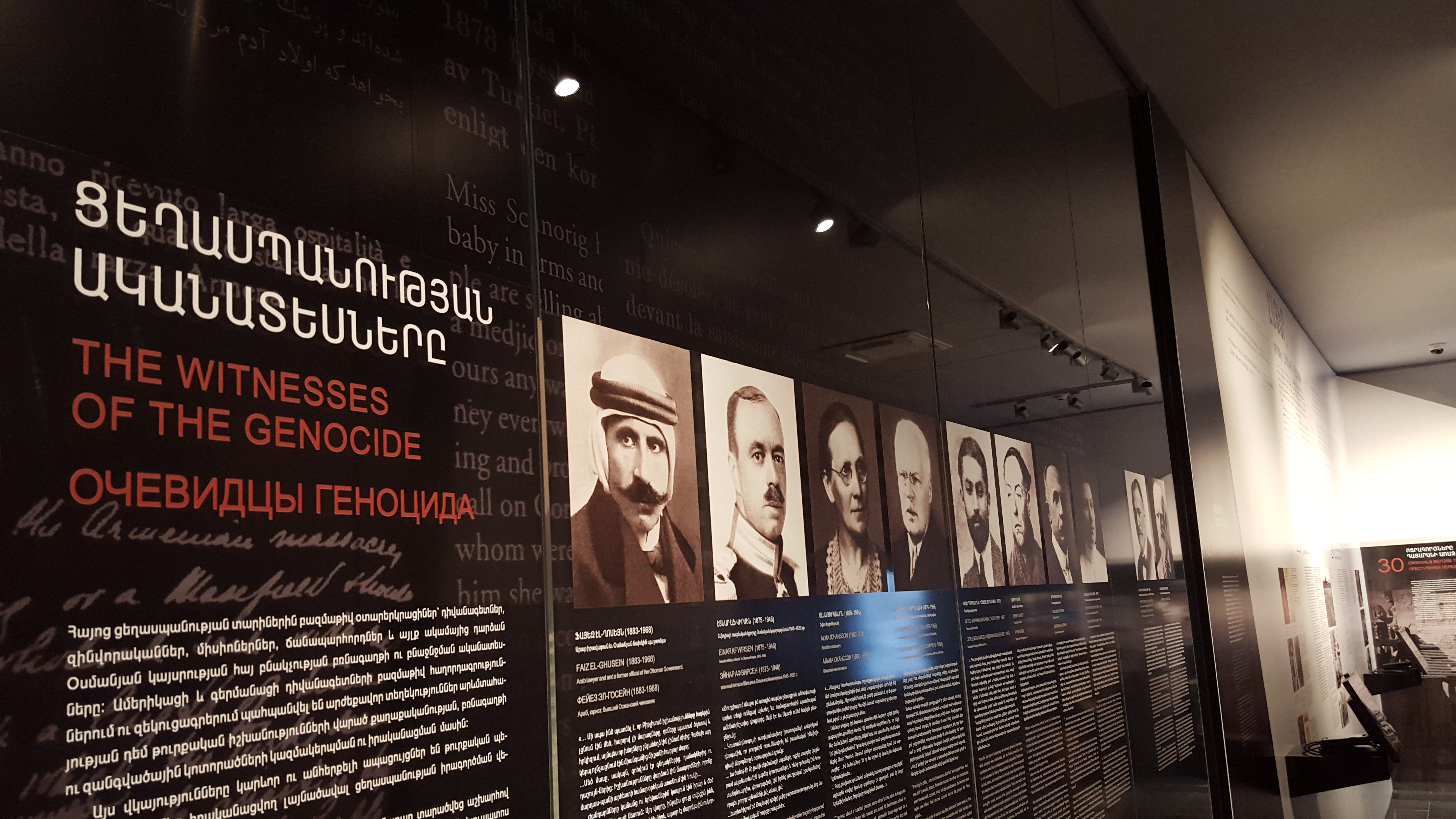 Witnesses of the Armenian Genocide. Nr.1 from left is Faiz El-Ghusein. Nr.2 from left is Einar af Wirsén. Nr.3 from left is Alma Johansson.